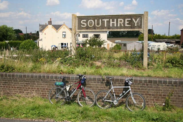 Eastbound platform